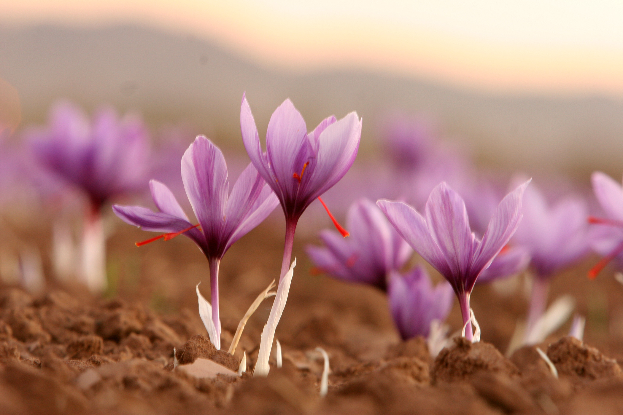 October 30, 2007 - Saffron farm, Torbat heydariyeh, Razavi Khorasan province, Iran - Photo by: Safa Daneshvar - A trip with Faraz Saffron Co. Ltd.